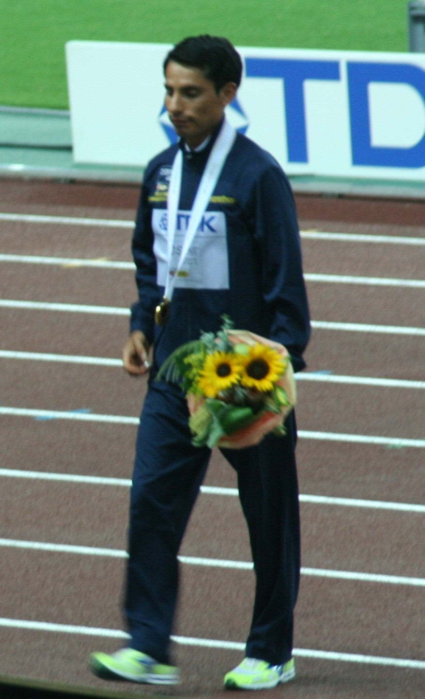 World Athletics Championships 2007 in Osaka - Men*s 20km winner Jefferson Perez after the victory ceremony (this time is should be the correct person!)